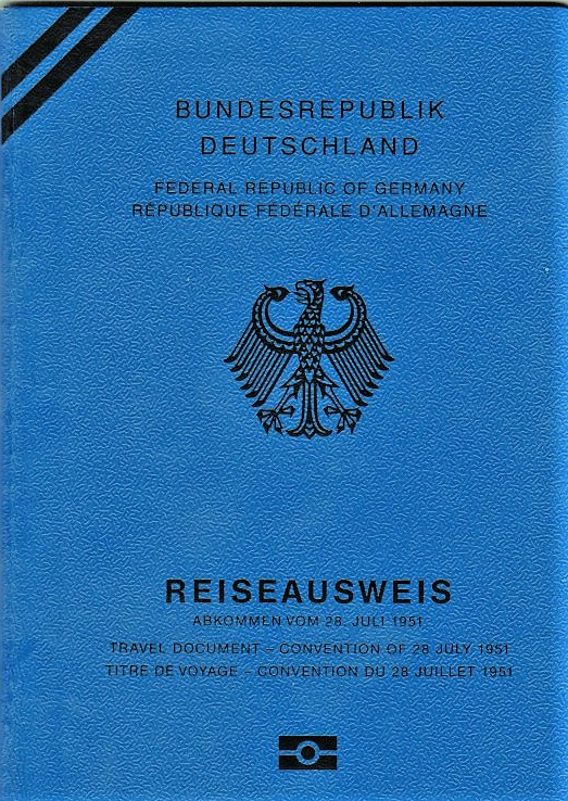 convention travel document Germany